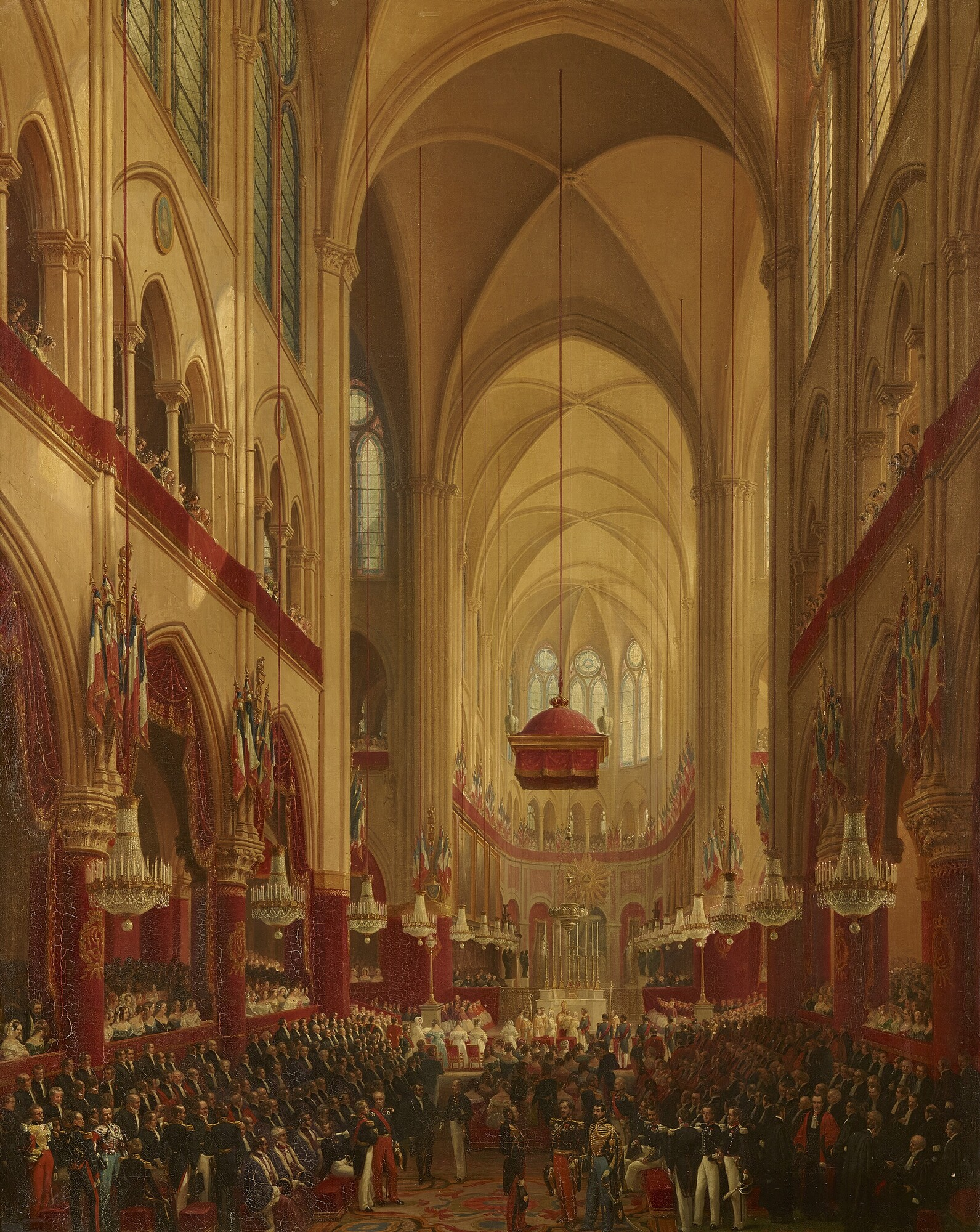 Baptism of the Comte de Paris at Notre Dame de Paris, 2 May 1841